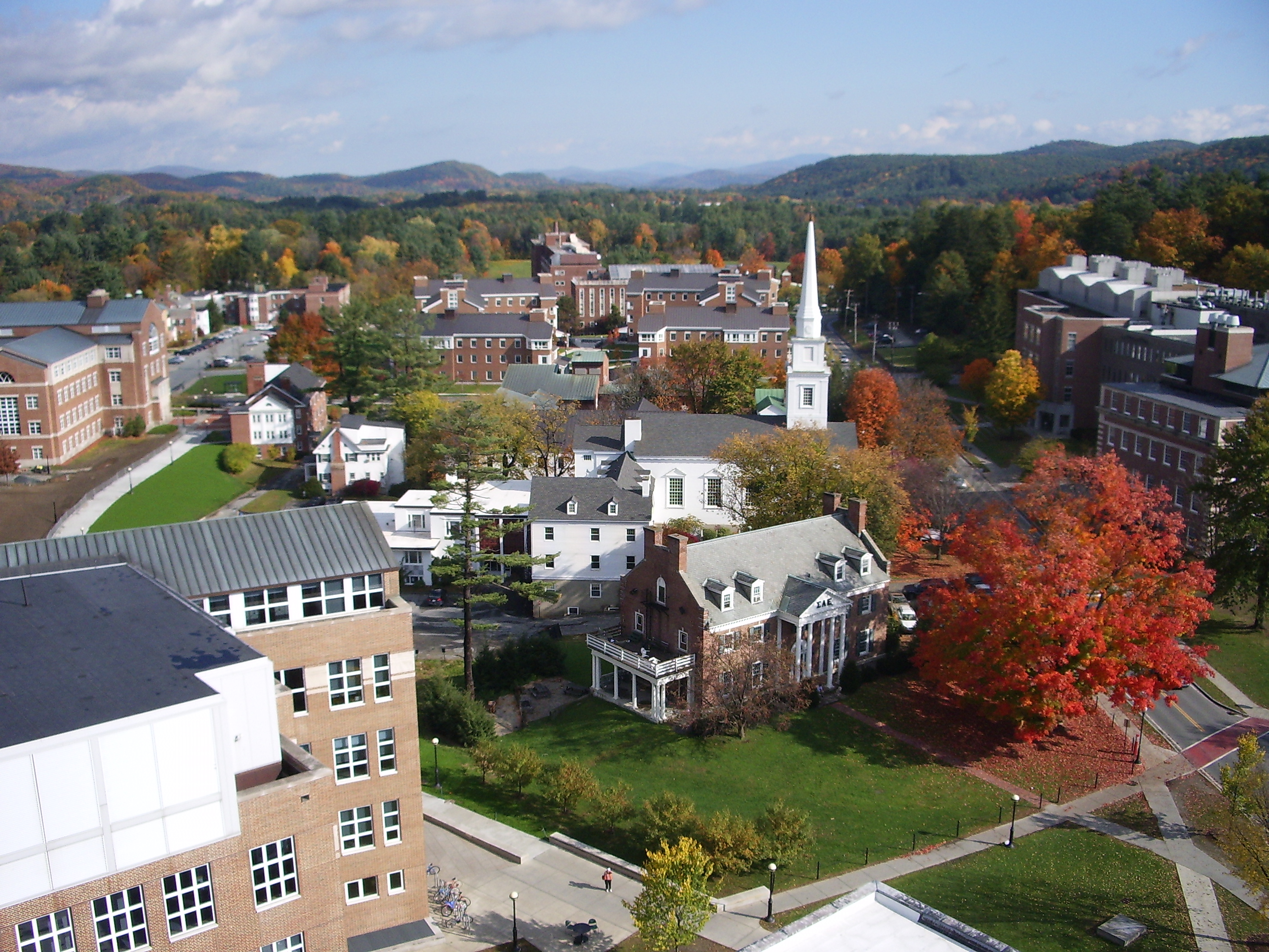 A photo of the campus of Dartmouth College in Hanover, New Hampshire, taken from the tower of Baker tower.